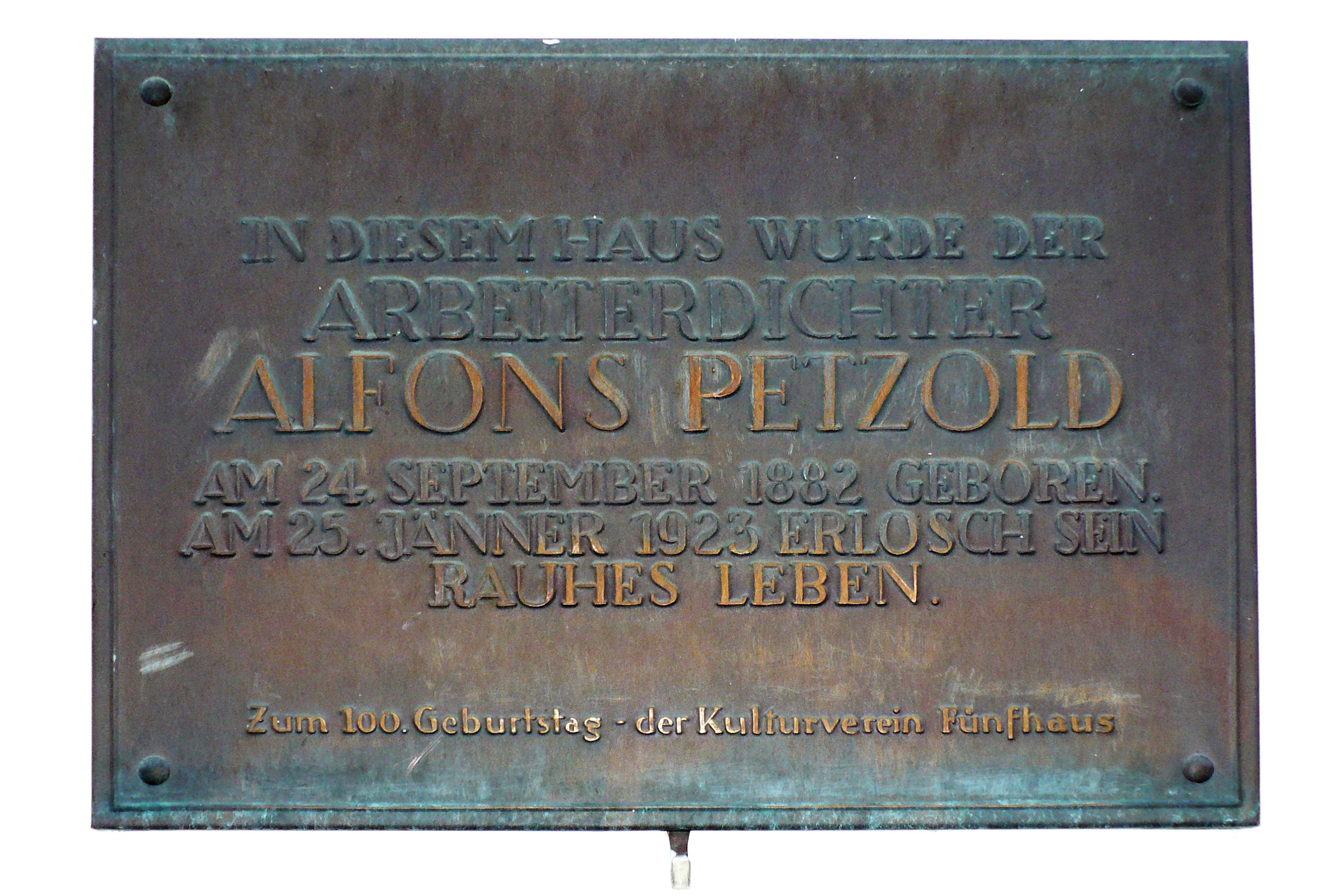 Commemorative plaque at the birthplace of austrian working-class poet Alfons Petzold in the Robert-Hamerling-Gasse in Vienna.